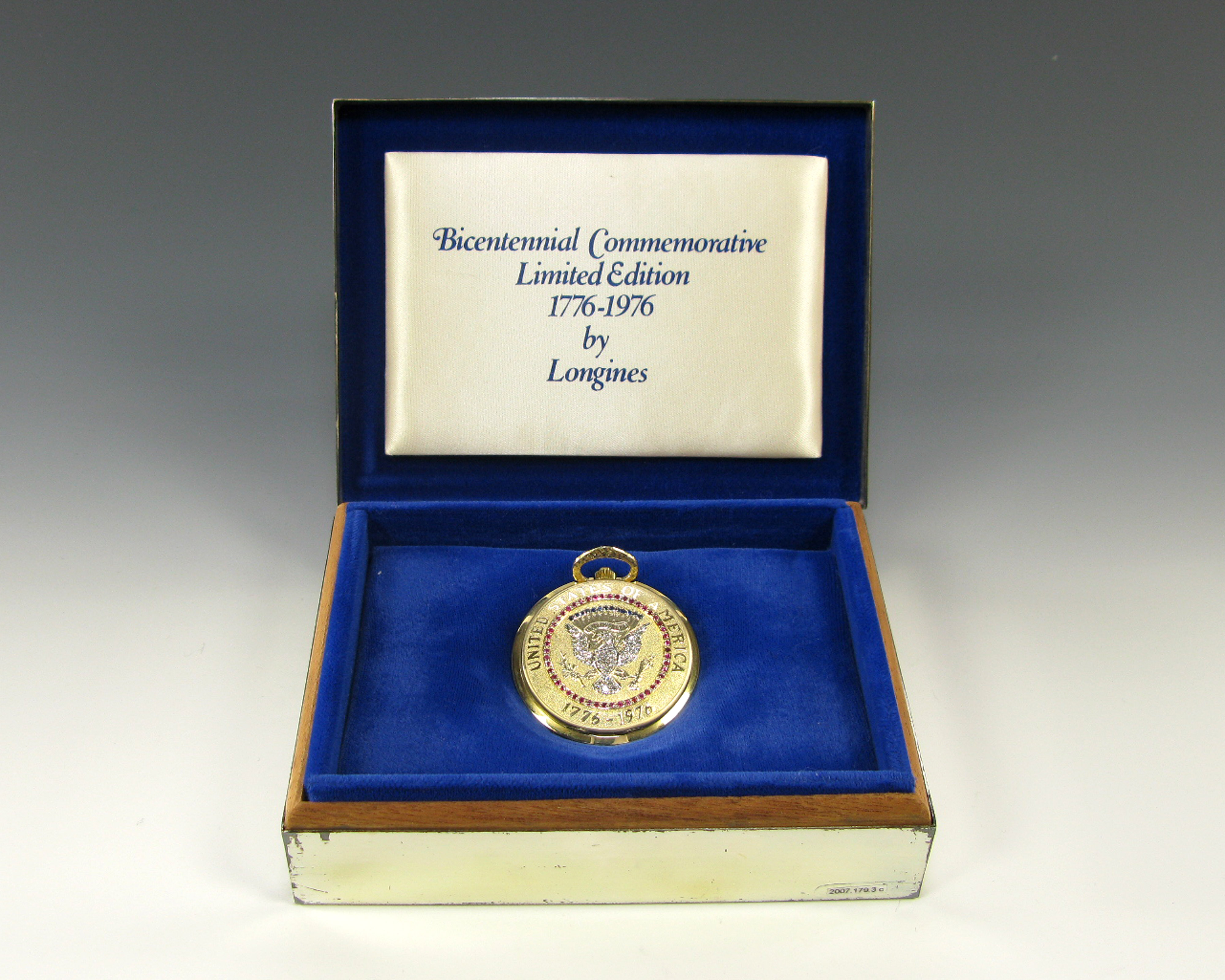 Silver pocket watch has the Seal of the President depicted on the front set with colored stones. The watch face features a silver background with gold details. The pocket watch sits inside a silver box lined with blue velvet. Gift of Betty Ford.